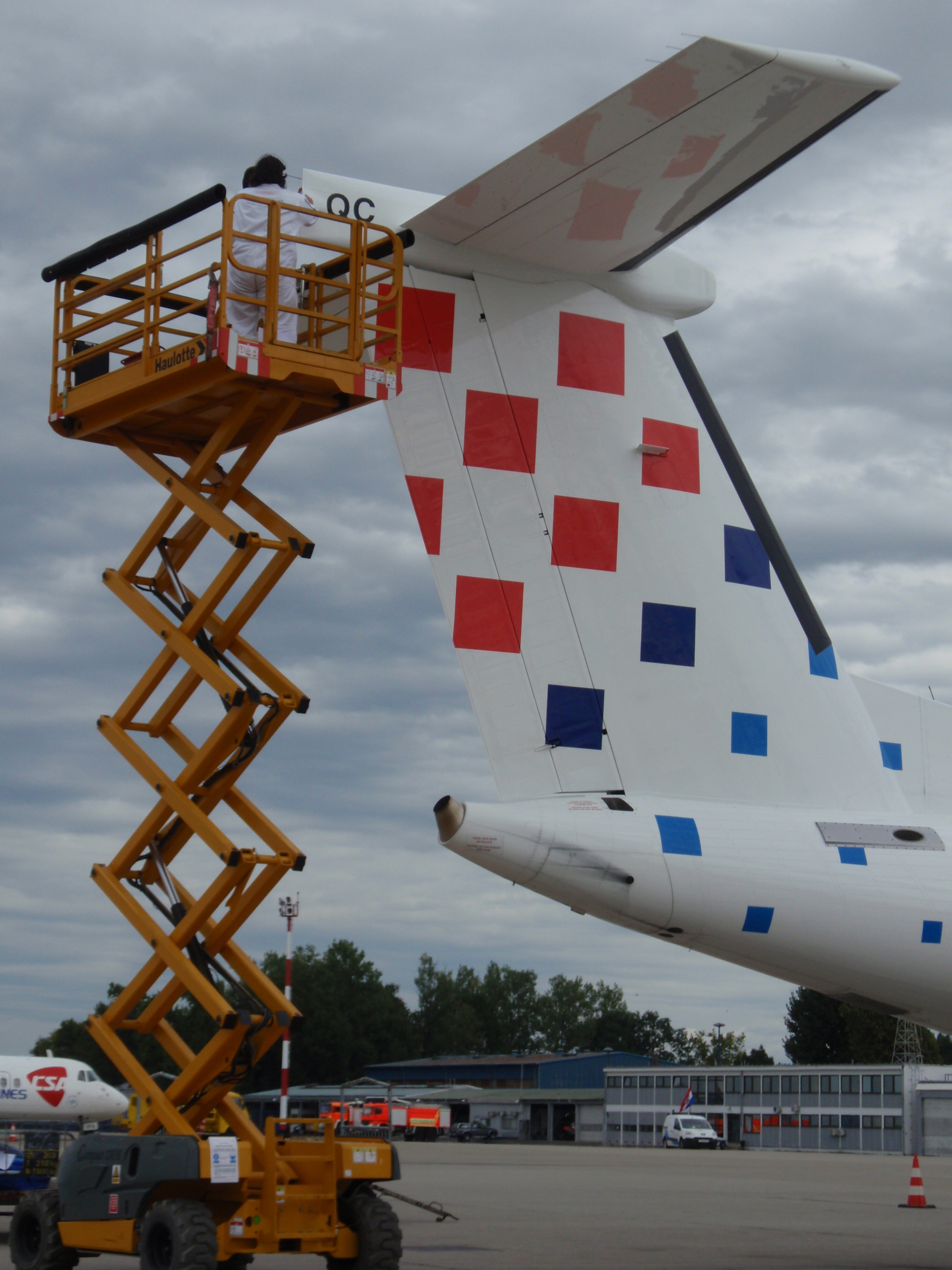 Aircraft maintenance (dash Q400)